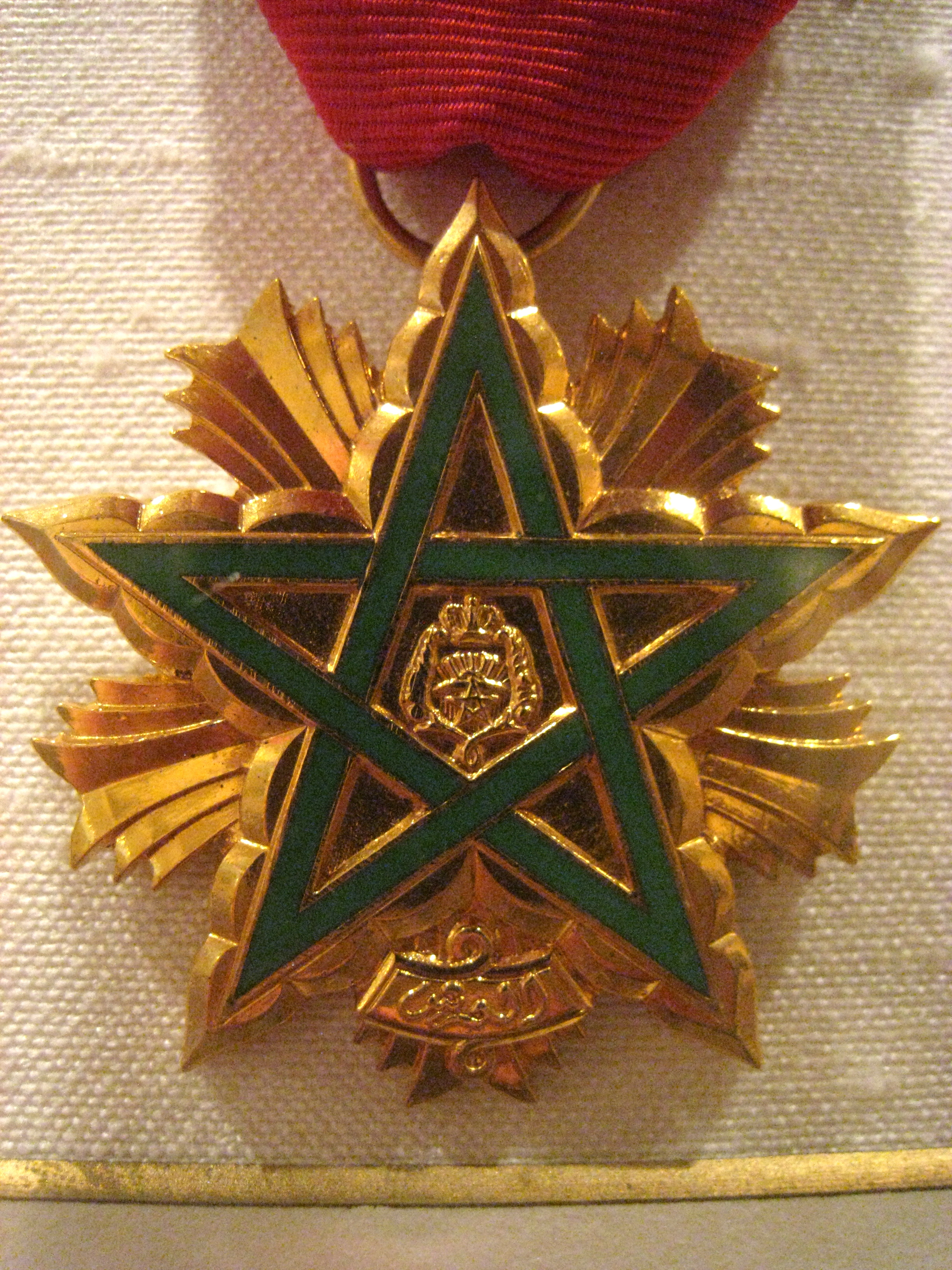 Order of the Throne, granted by Hassan II of Morocco. Presented to Ambassador Angier Biddle Duke, and now on display in the Washington Duke Inn, Durham, North Carolina, USA.